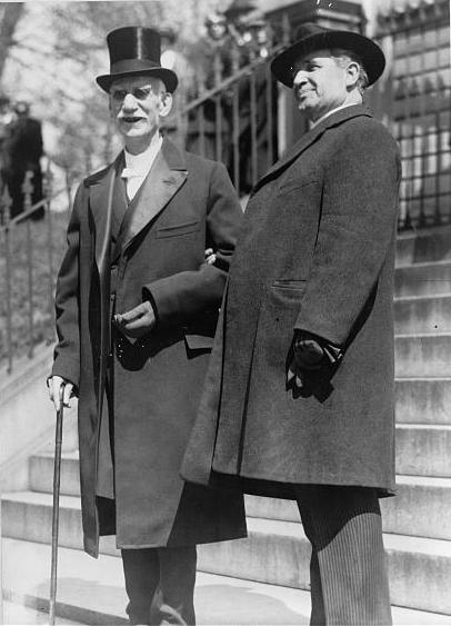 Dr. Montgomery, chaplain of House of Rep. and Rev. Couden, former blind chaplain of House at White House Digital ID: (digital file from b&w film copy neg.) cph 3c37460 Reproduction Number: LC-USZ62-137460 (b&w film copy neg.) Repository: Library of Congress Prints and Photographs Division Washington, D.C. 20540 USA